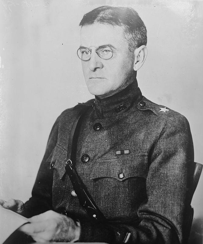 Brig. Gen. M.L. Walker